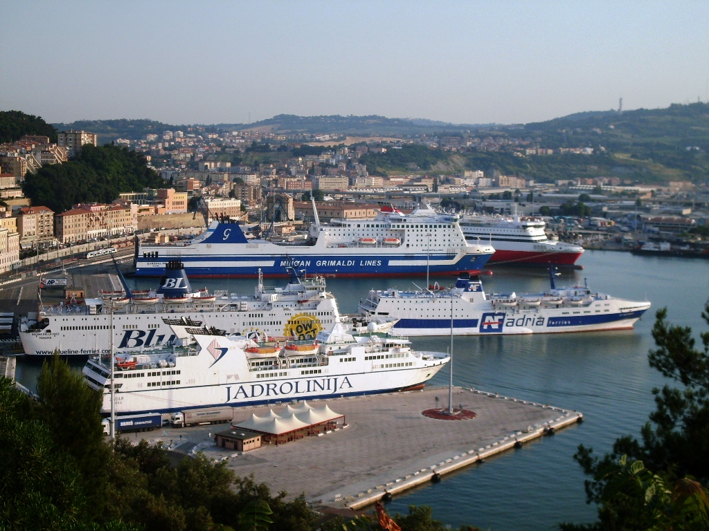 Ships in the port of Ancona. From front to back, they are the Jadrolinija ferry Zadar, the MS Regina della Pace, the Adria ferry AF Michela, the Minoan Grimaldi Lines ferry Europalink, and a Superfast Ferries ship (either the MS Superfast XI or MS Superfast XII).